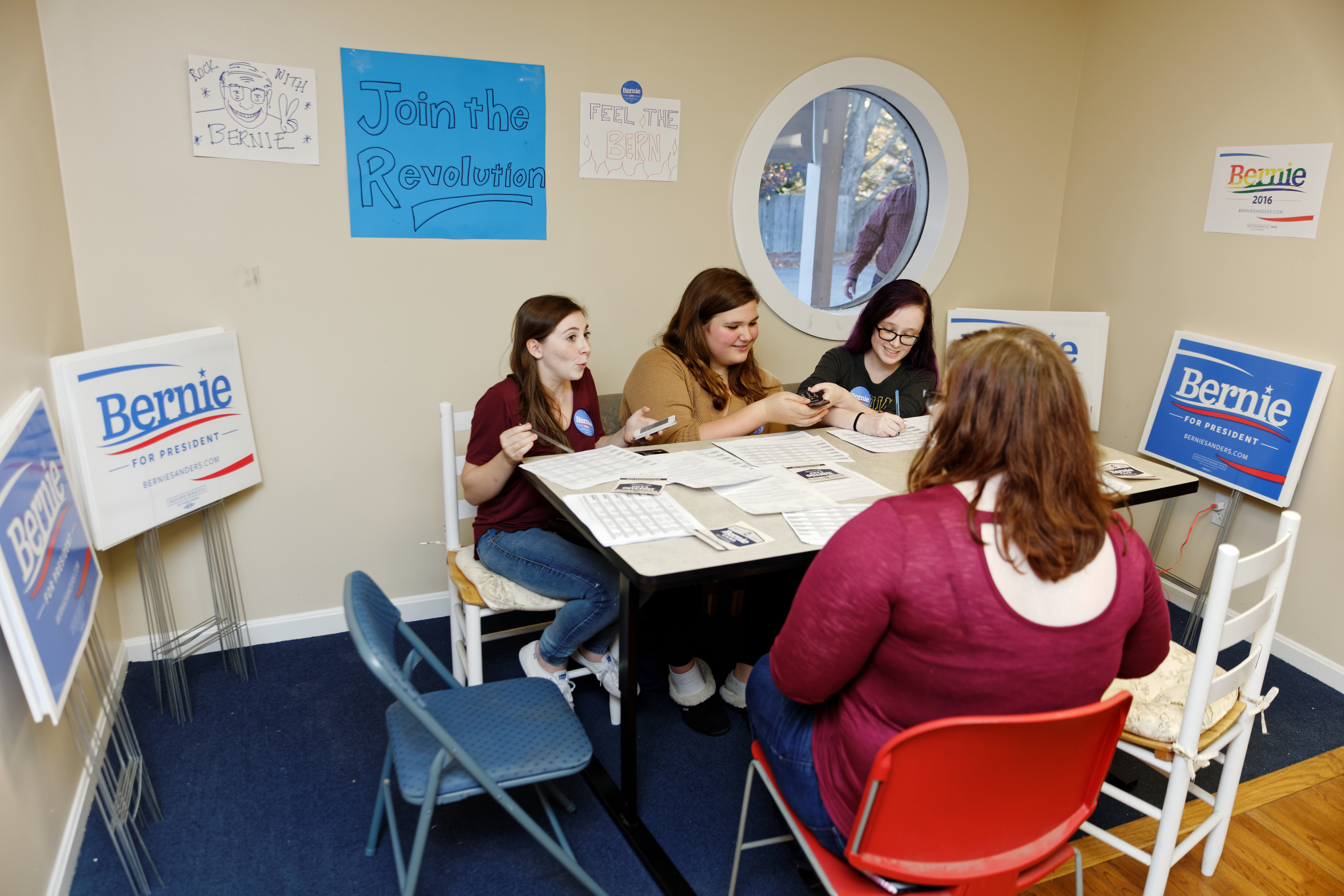 I visited Senator of Vermont Bernie Sanders Nashua Campaign field office on October 30th. Senator Bernie Sanders made a speech and I toured the office. Its a small quaint office with a very motivated team. Location: Nashua Field Office (Nashua, NH) 381 Main Street Nashua, NH 03060 Date: October 30th Photography by Michael Vadon